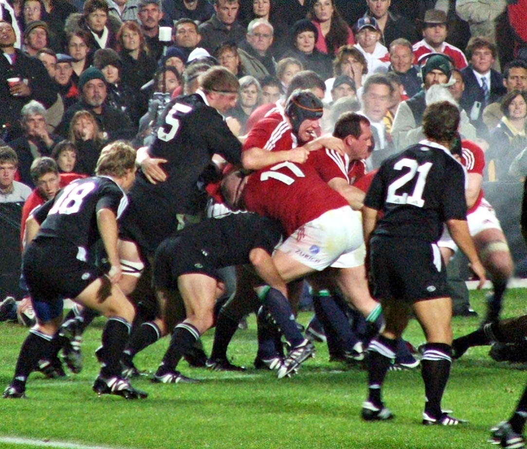 Great struggle at Waikato Stadium: British Lions v New Zealand Maoris. The first victory by the Maoris over a touring Lions side.